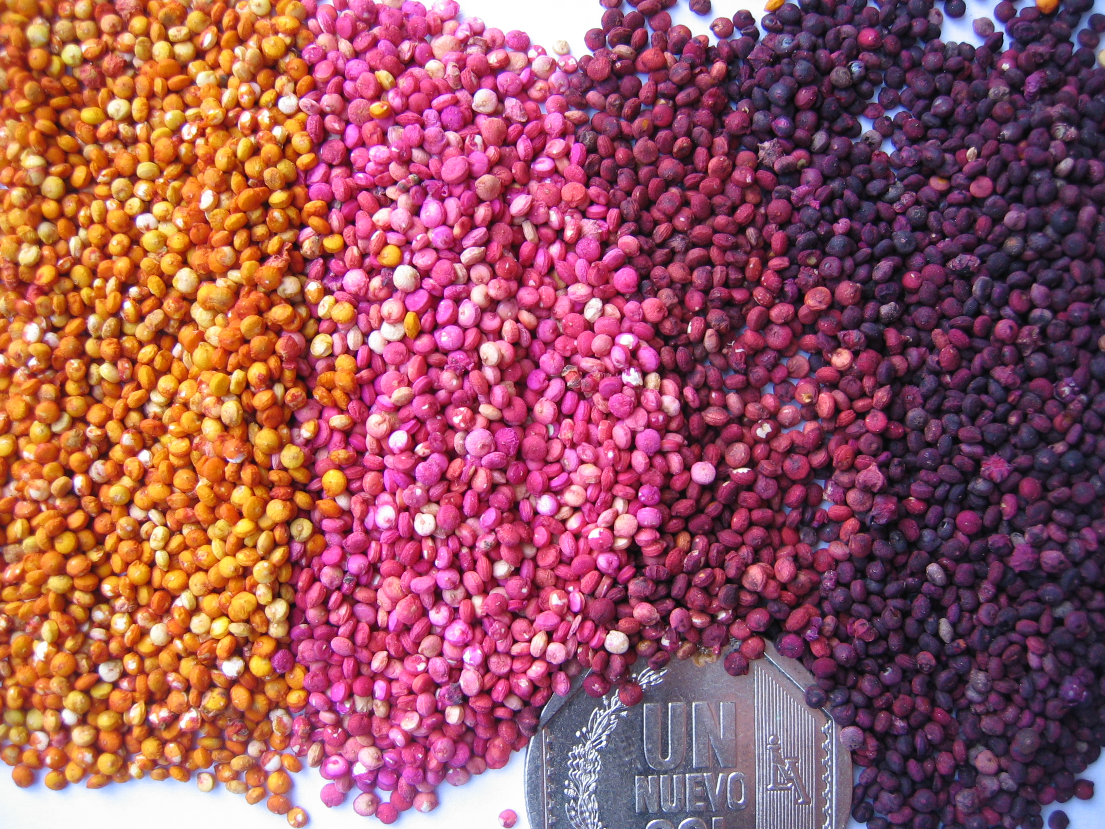 Grain colour variation in quinoa (Chenopodium quinoa), INIA Genebank (Instituto de Investigaciones Agropecuarias), Juliaca, Peru.